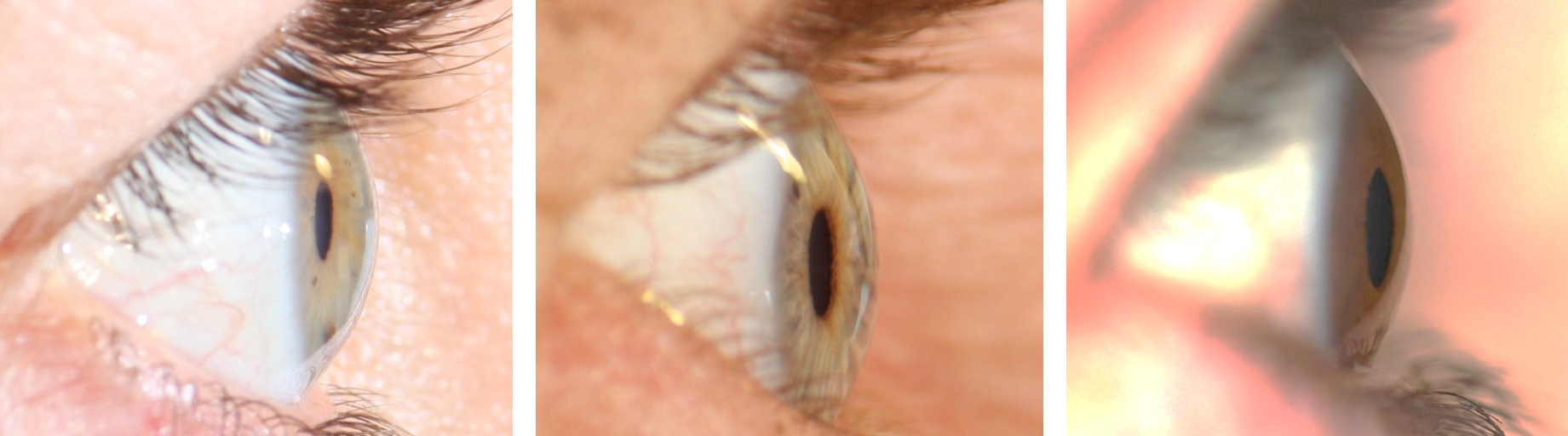 Three right eyes viewed from the perpendicular lateral position. As can be intuitively learned from the relative antero-posteroir position of the pupil, the anterior chamber is deepest in the left most eye, is medium in the middle one and shallowest in the right most eye. This is the basis for the EZ ratio method of estimating the anterior chamber depth